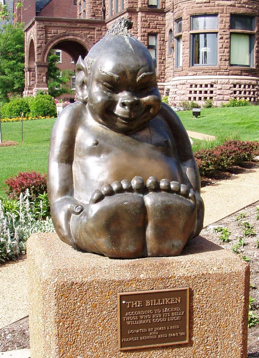 Saint Louis University's mascot, the Billiken which is actually not located where the picture was taken anymore